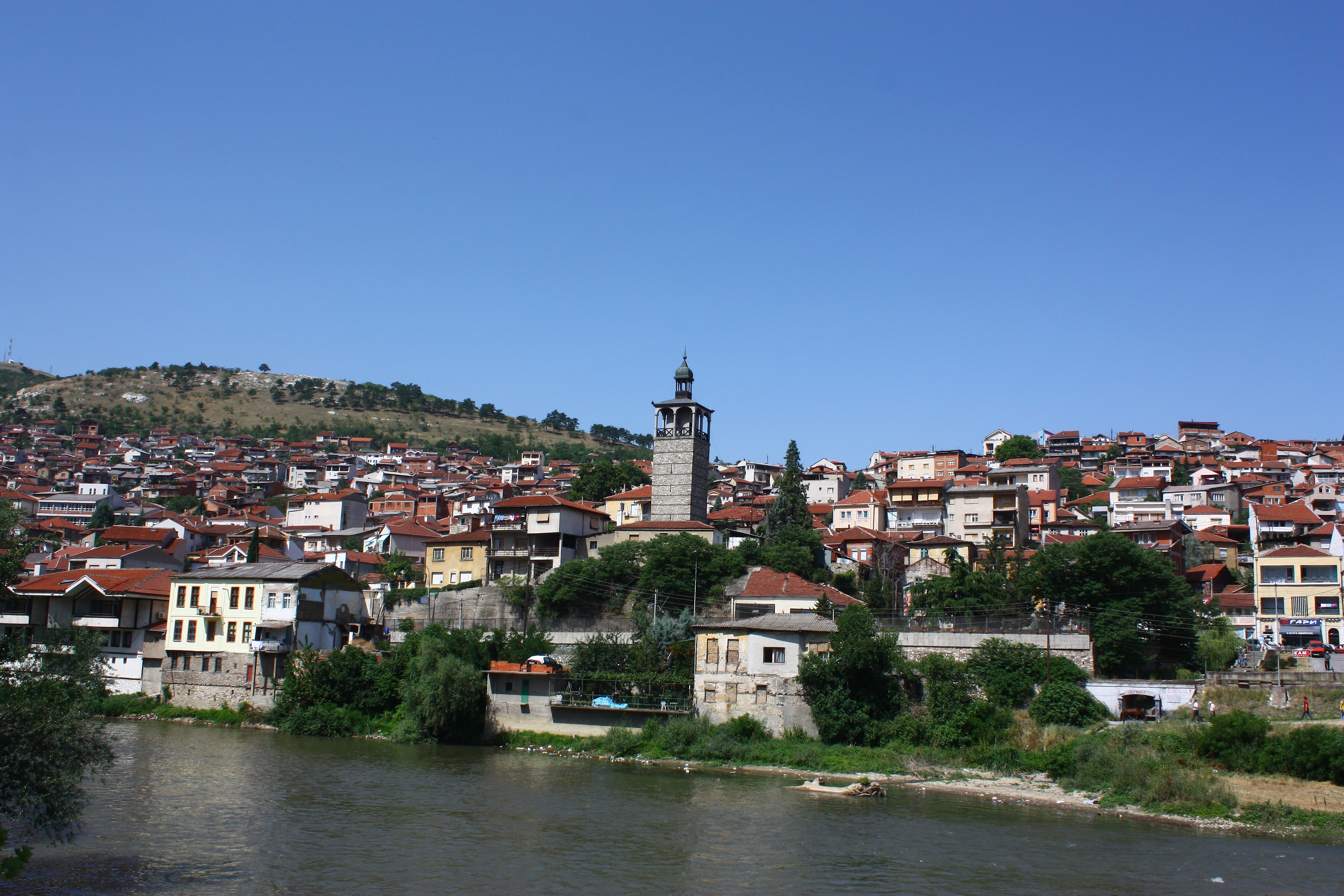 Veles, North Macedonia